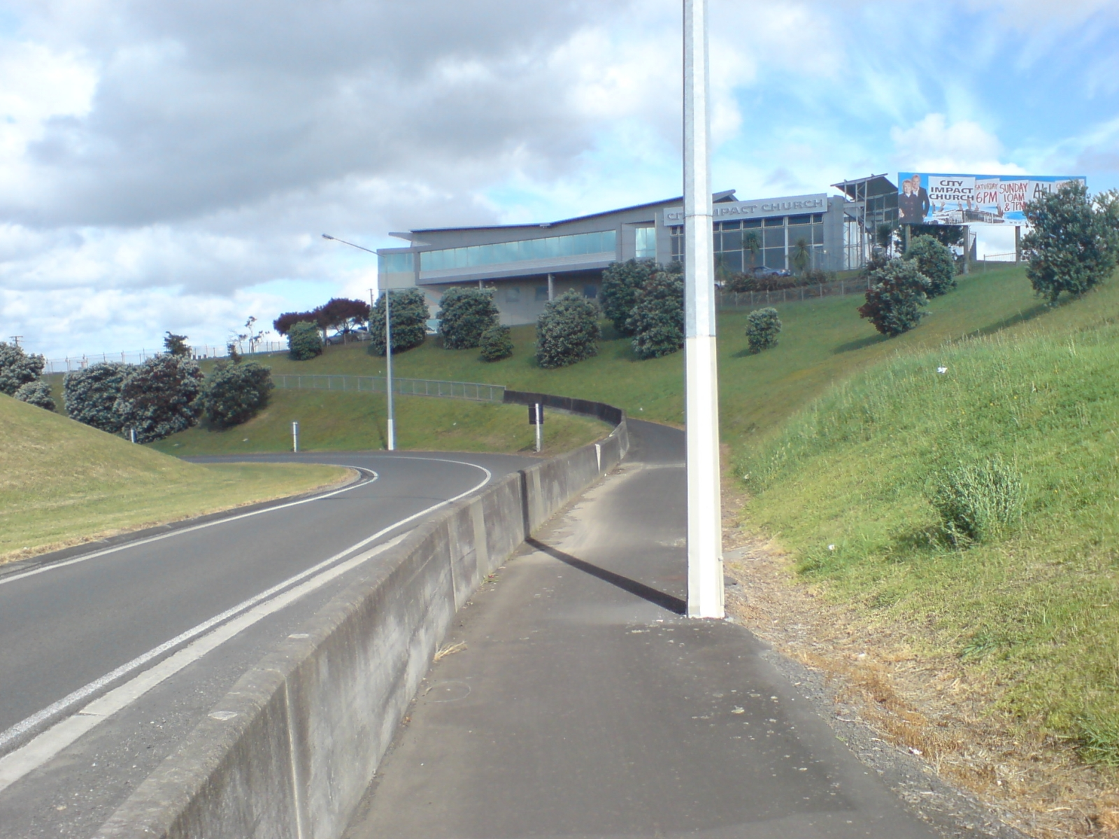 City Impact Church – Mt Wellington. A rarely used (because hidden and badly accessible) off-road bikeway between Penrose and Silvia Park, Auckland City, New Zealand. This bikeway runs along the SEART road route.